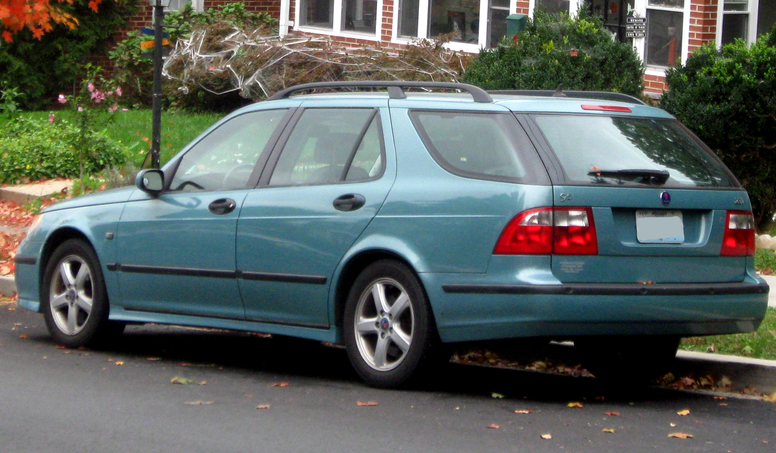 2002-2005 Saab 9-5 photographed in Washington, D.C., USA.